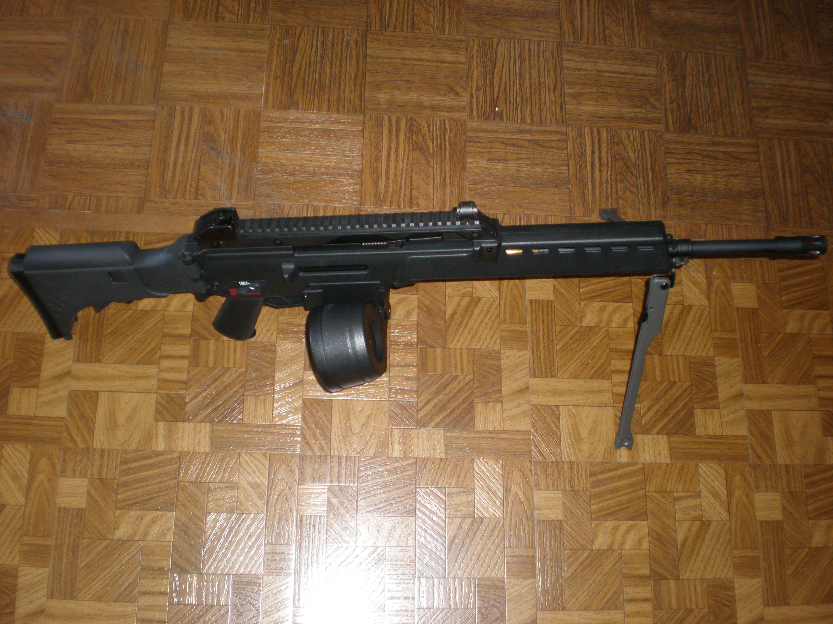 A Classic Army MG36 light machine gun.